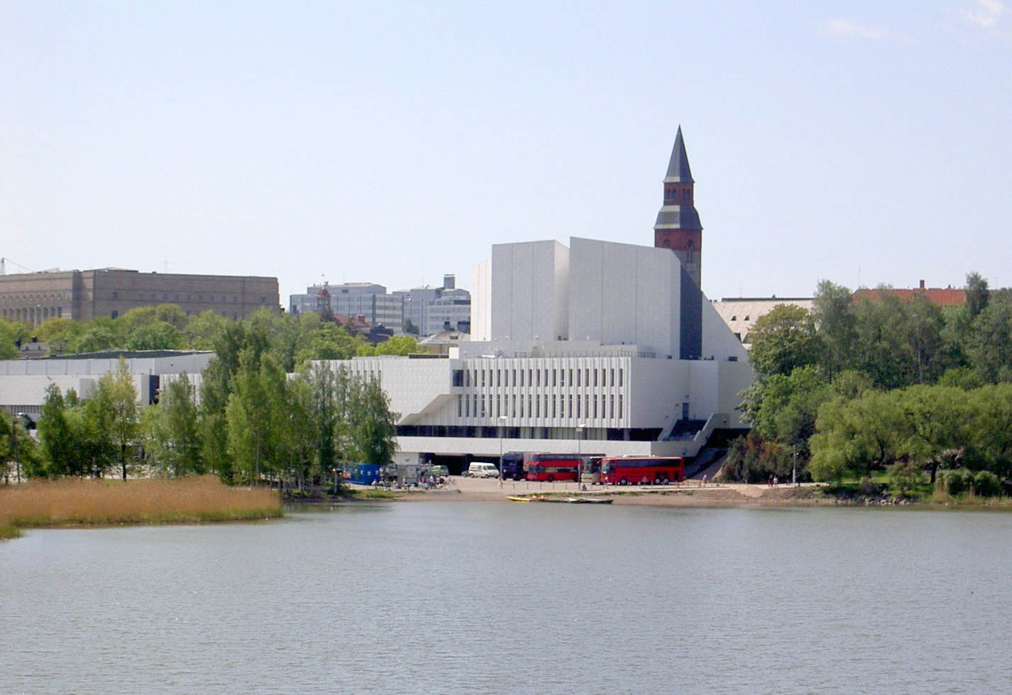 Finlandia Hall seen over the Töölönlahti Bay, Helsinki, Finland